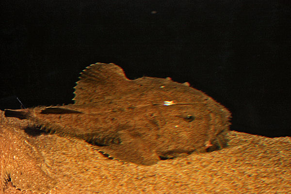 Anglerfish(Aqua World)